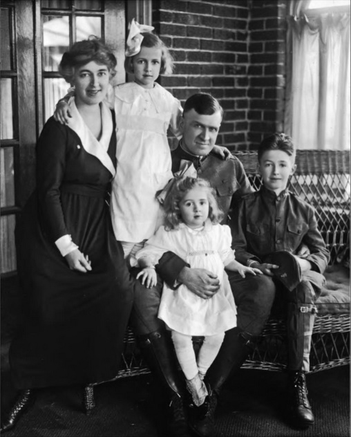 Family portrait of Stewart's family, 1918 L to R:mother Elizabeth Ruth Jackson, two sisters Mary and Virginia, father Alexander Maitland Stewart and son James Maitland Stewart at home in Indiana, Pennsylvania.